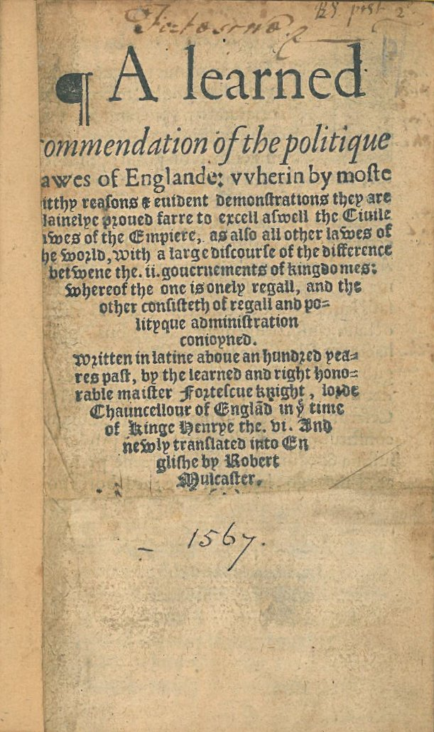 Title page of John Fortescue (1567) A Learned Commendation of the Politique Lawes of Englande: VVherin by moste Pitthy Reasons & Euident Demonstrations they are Plainelye Proued Farre to Excell aswell the Ciuile Lawes of the Empiere, as also all other Lawes of the World, with a Large Discourse of the Difference betwene the. ii. Gouernements of Kingdomes: Whereof the One is onely Regall, and the Other Consisteth of Regall and Polityque Administration Conioyned. Written in Latine aboue an Hundred Yeares Past, by the Learned and Right Honorable Maister Fortescue Knight, Lorde Chauncellour of England in the Time of Kinge Henrye the. vi. And Newly Translated into Englishe by Robert Mulcaster (1st English ed.), London: Imprinted ... in Fletestrete within Temple Barre, at the signe of the hand and starre, by Rychard Tottill OCLC: 837169265. The text on the title page is as follows: "¶ A learned / commendation of the politique / lawes of Englande: vvherin by moſte / pitthy reaſons & euident demonſtrations they are / plainelye proued farre to excell aſwell the Ciuile / lawes of the Empiere, as alſo all other lawes of / the world, with a large diſcourse of the difference / betwene the. ii. gouernements of kingdomes: / whereof the one is onely regall, and the / other conſiſteth of regall and po⸗ / lityque adminiſtration / conioyned." "written in latine aboue an hundred yea⸗ / res paſt, by the learned and right hono⸗ / rable maiſter Forteſcue knight, lorde / Chauncellour of Englād in ye time / of Kinge Henrye the. vi. / And newly tranſlated into En / gliſhe by Robert / Mulcaſter."